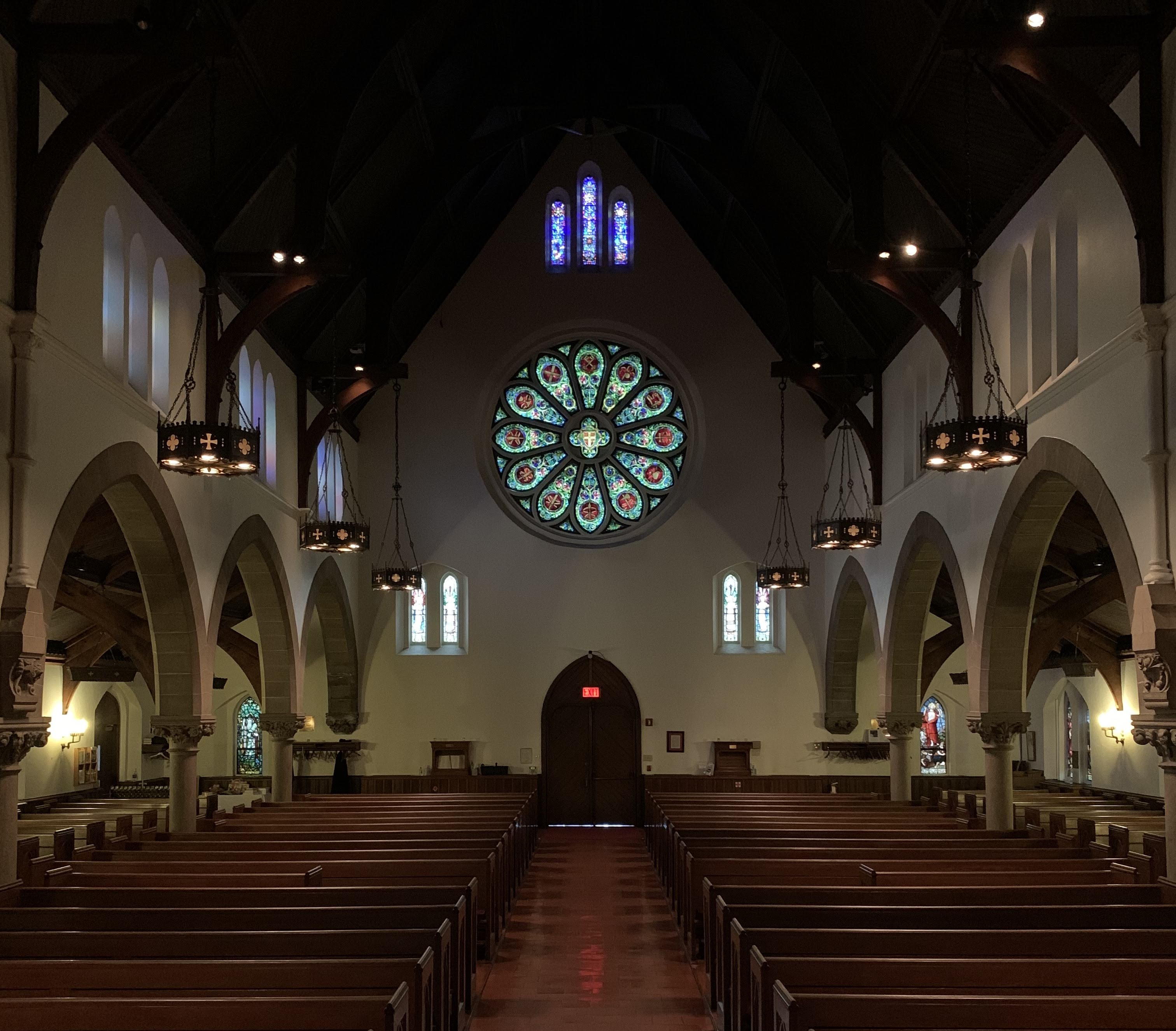 Nave with side aisles and south wall with rose window (1887 & 1907) of The (Episcopal) Cathedral Church of the Nativity in Bethlehem, Pennsylvania